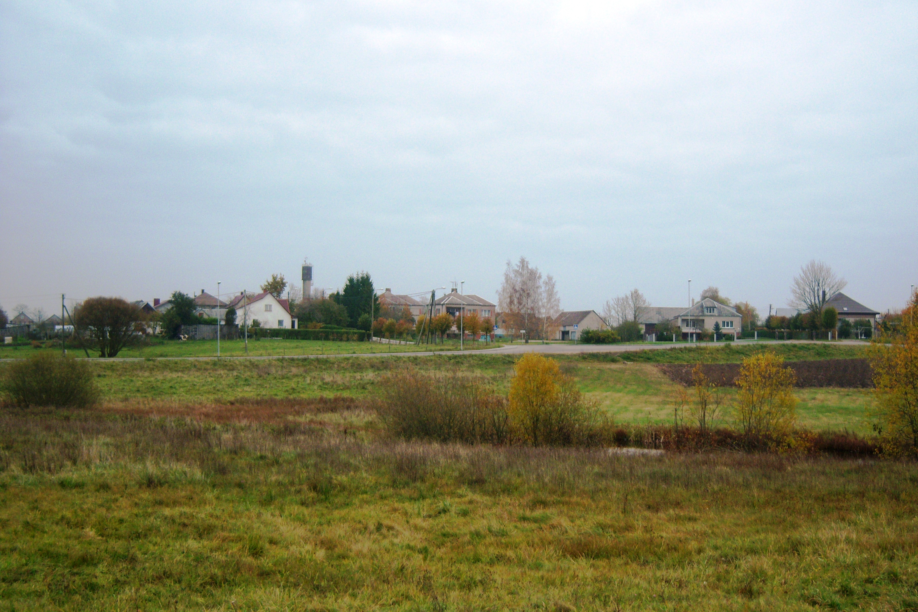 Rainiai, Telšiai district, Lithuania